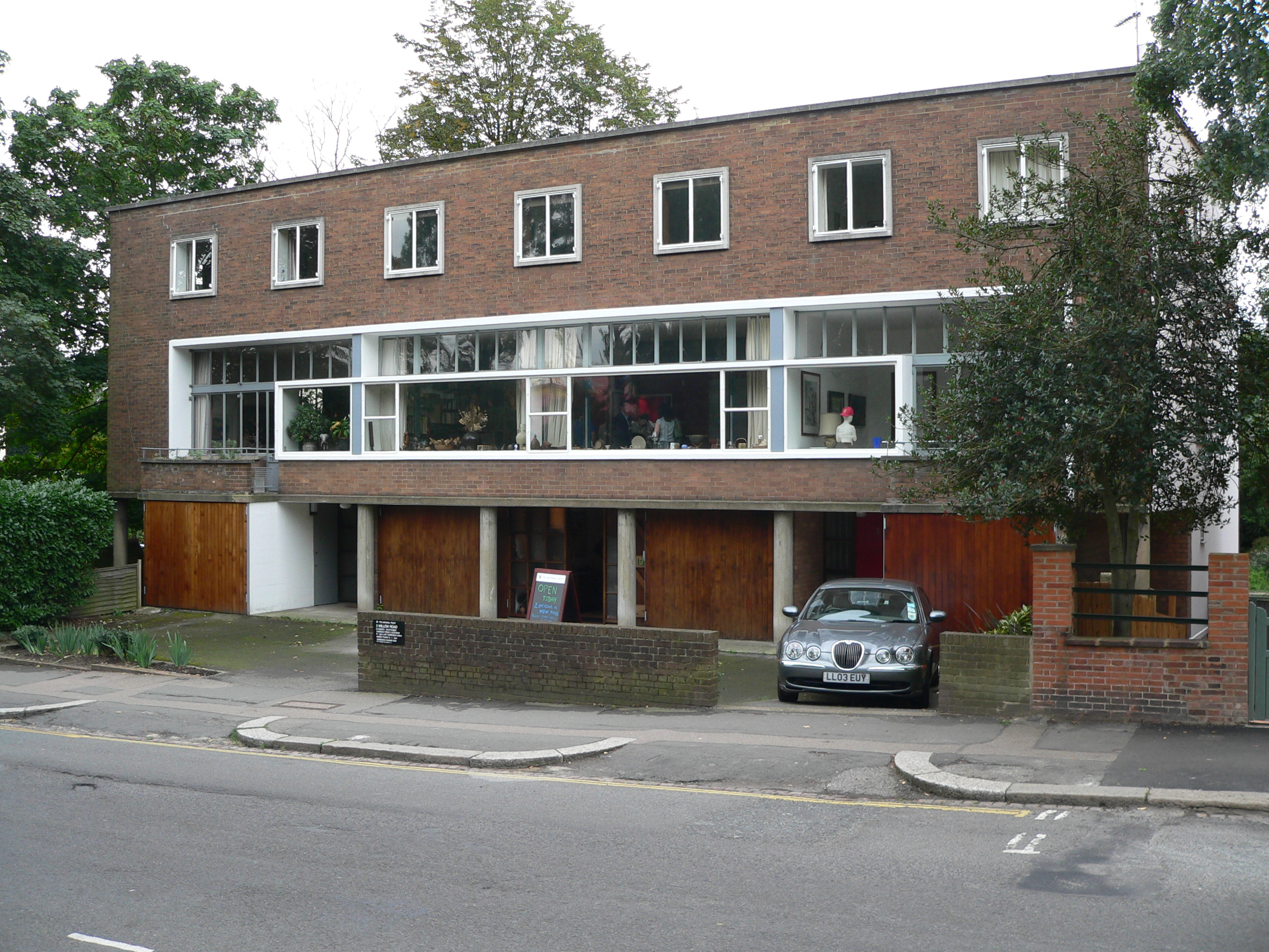 2 Willow Road, Hampstead, London, UK. Example of 1930s Modernist architecture. Photo taken 24th September 2005 by myself using Panasonic FZ20 camera. Adjusted a little for dynamic range (cloudy day so still dull).